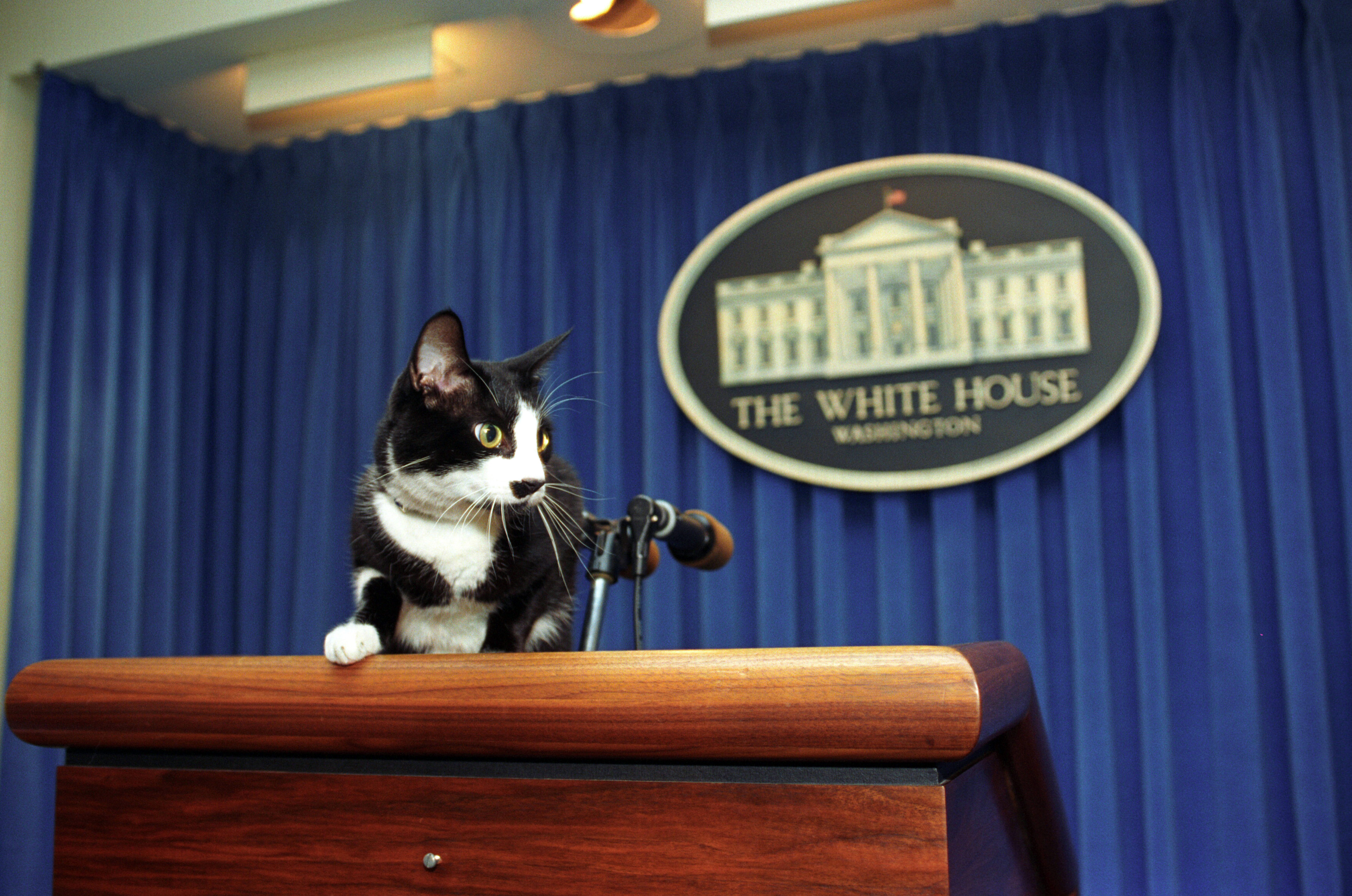 Socks at the podium in the White House Press Briefing Room